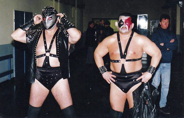 Eadie as Ax [left] with Richard Charland as Blast (1) in 1991.